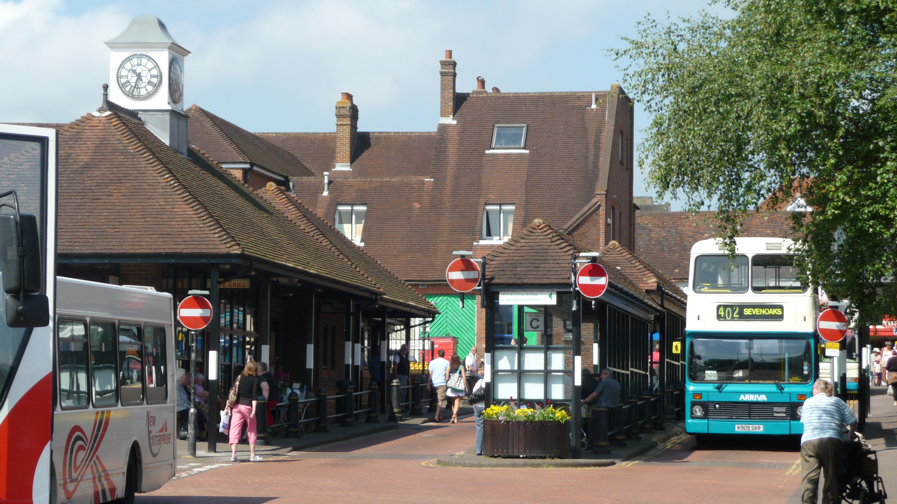 Sevenoaks bus station, Sevenoaks, Kent. This photograph was taken at the junction of Akehurst Lane/Suffolk Way, at the exit of the bus station. Buses enter the site from the High Street. The bus station is situated in Buckhurst Avenue, although as there is no traffic permitted through it except buses nowadays, the need for a road name is much reduced.